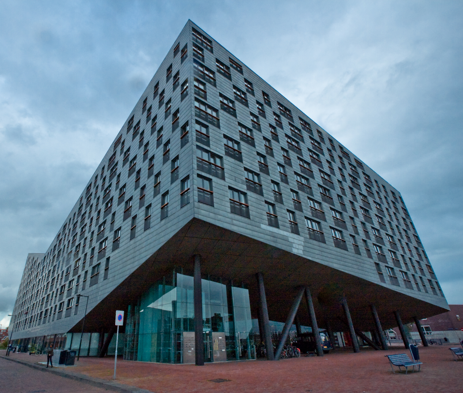 The Whale, mega-apartment building by architect F. van Dongen. (1995-2000).